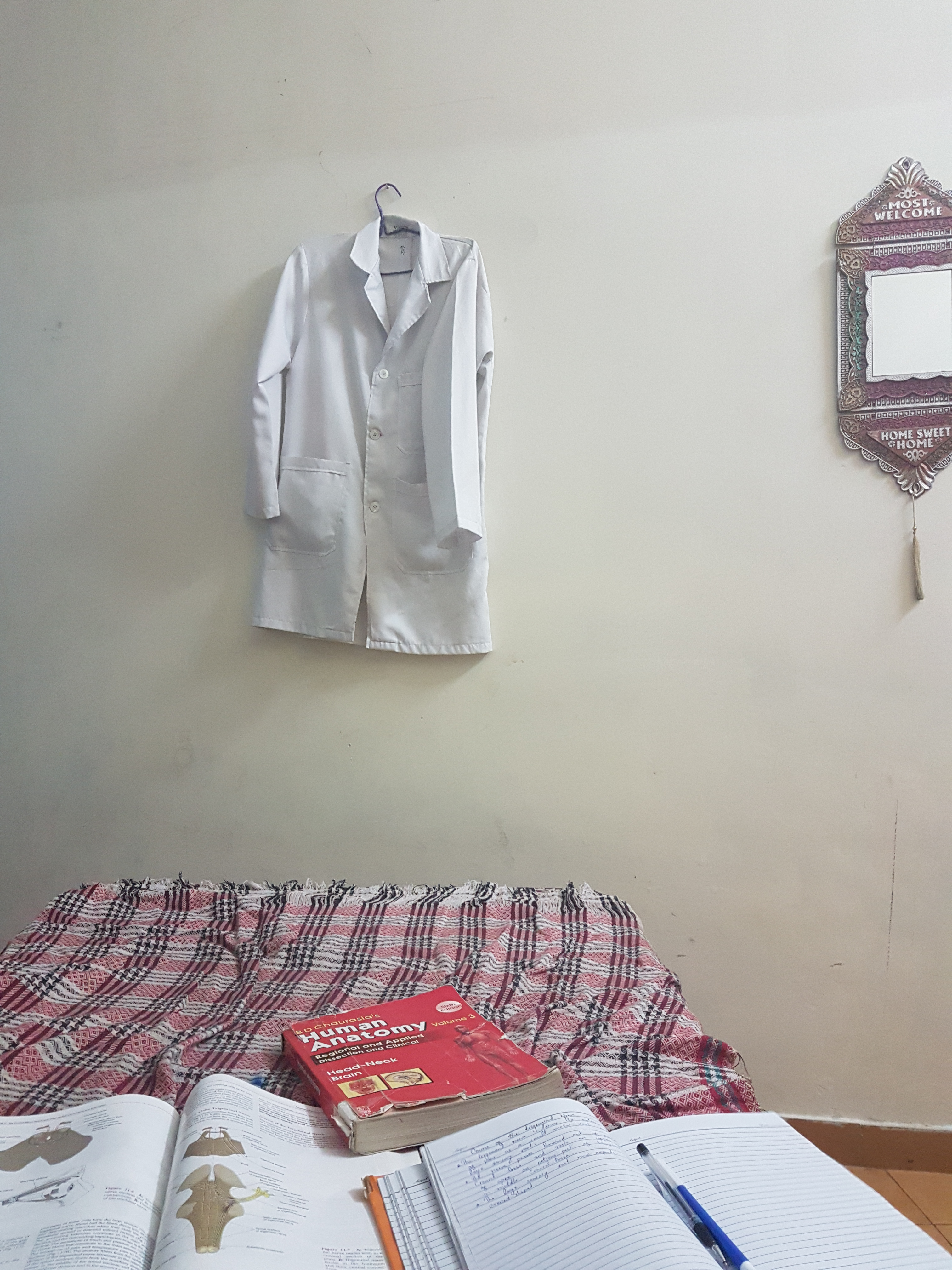 A student's white coat hung outside the wardrobe in the boy's hostel where he can quickly have a glimpse of it so that he can put it on without forgetting and miss his attendance.